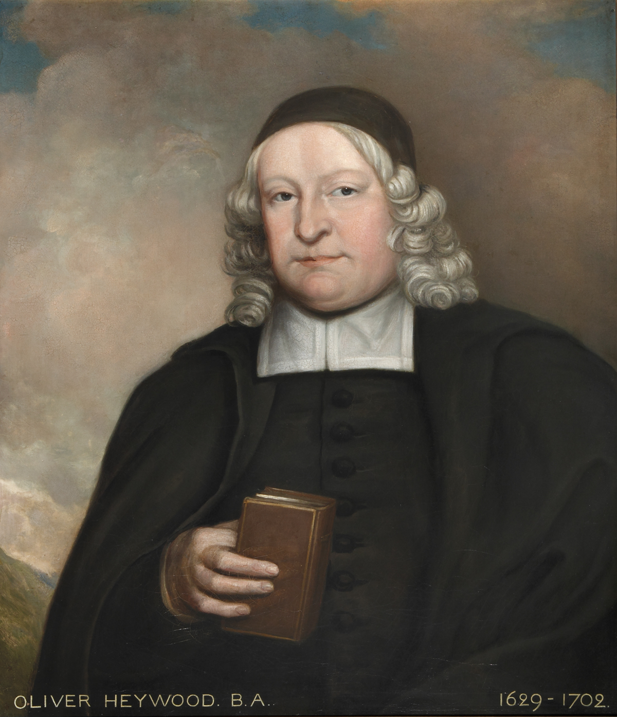 Depicted person: Oliver Heywood (minister)